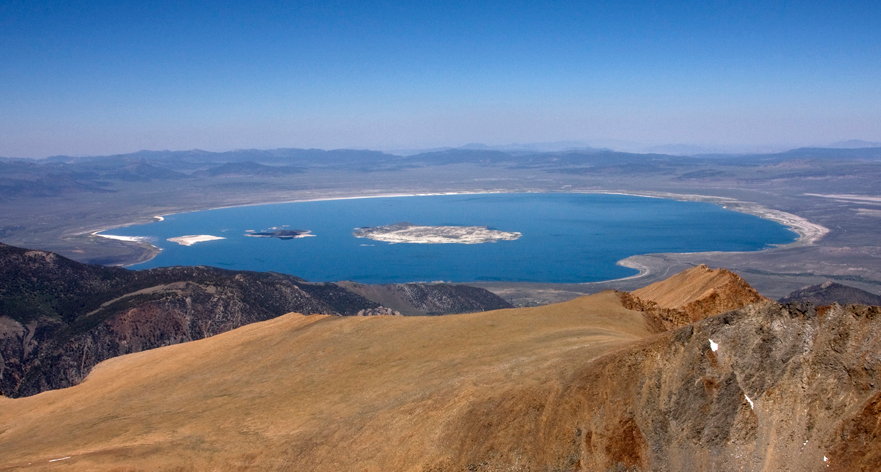 Mono Lake from Mount Dana, California, United States